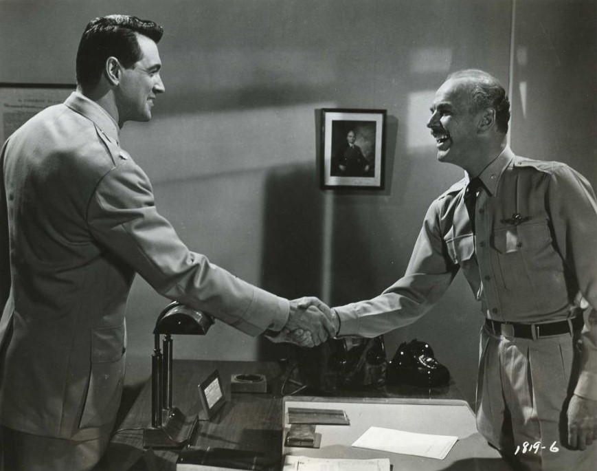 Rock Hudson (left) and Bartlett Robinson in Battle Hymn (1957) - publicity still (cropped)